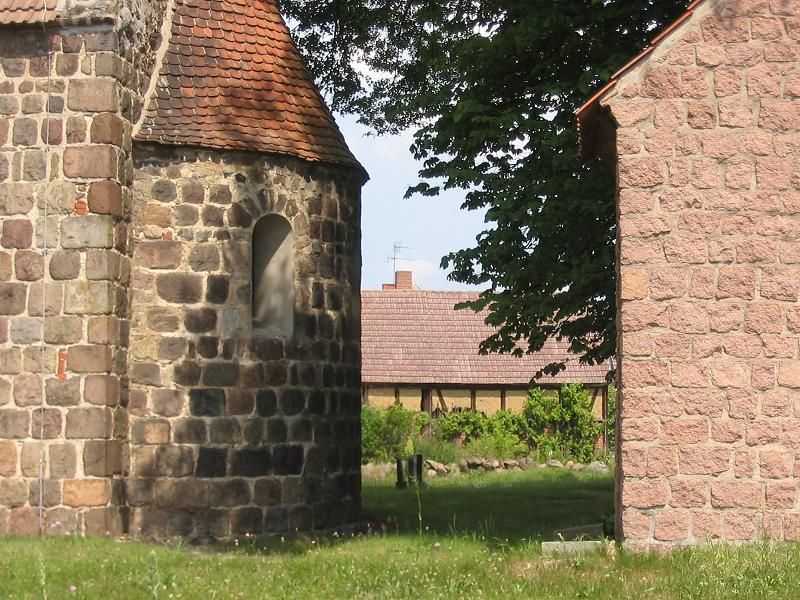 Church Preußnitz, built in 13th century. The village Preußnitz is a part of the village Kuhlowitz, an incorporated part of the town Belzig in Brandenburg, Germany.